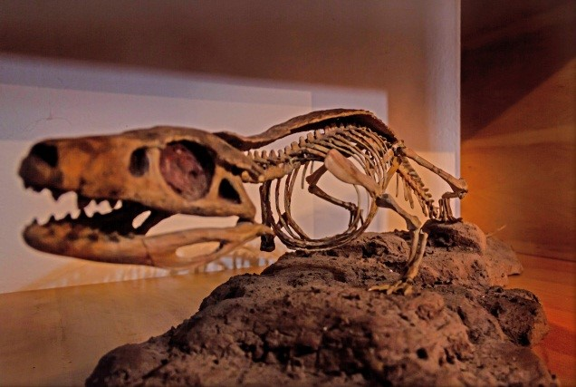 Reconstruction of the skeleton of Araripesuchus buitreraensis made by the paleoartist Adrian Garrido and exhibited at the Carlos Ameghino Provincial Museum.